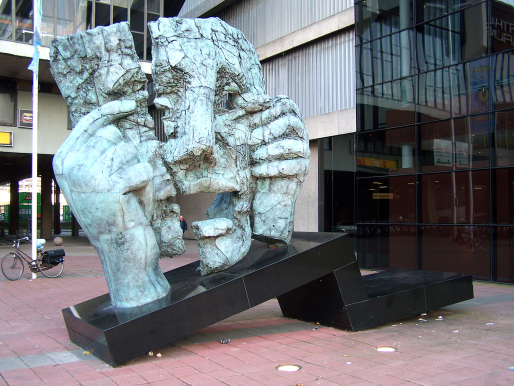 Sculpture "Demasqué" by Pépé Grégoire. Made in 1999 with the opening of the Beatrix theatre.